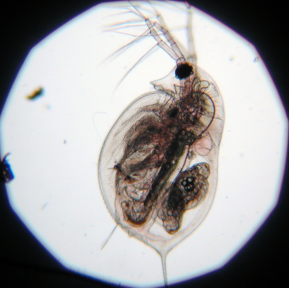 Daphnia spec., Frankfurt/Main, Germany